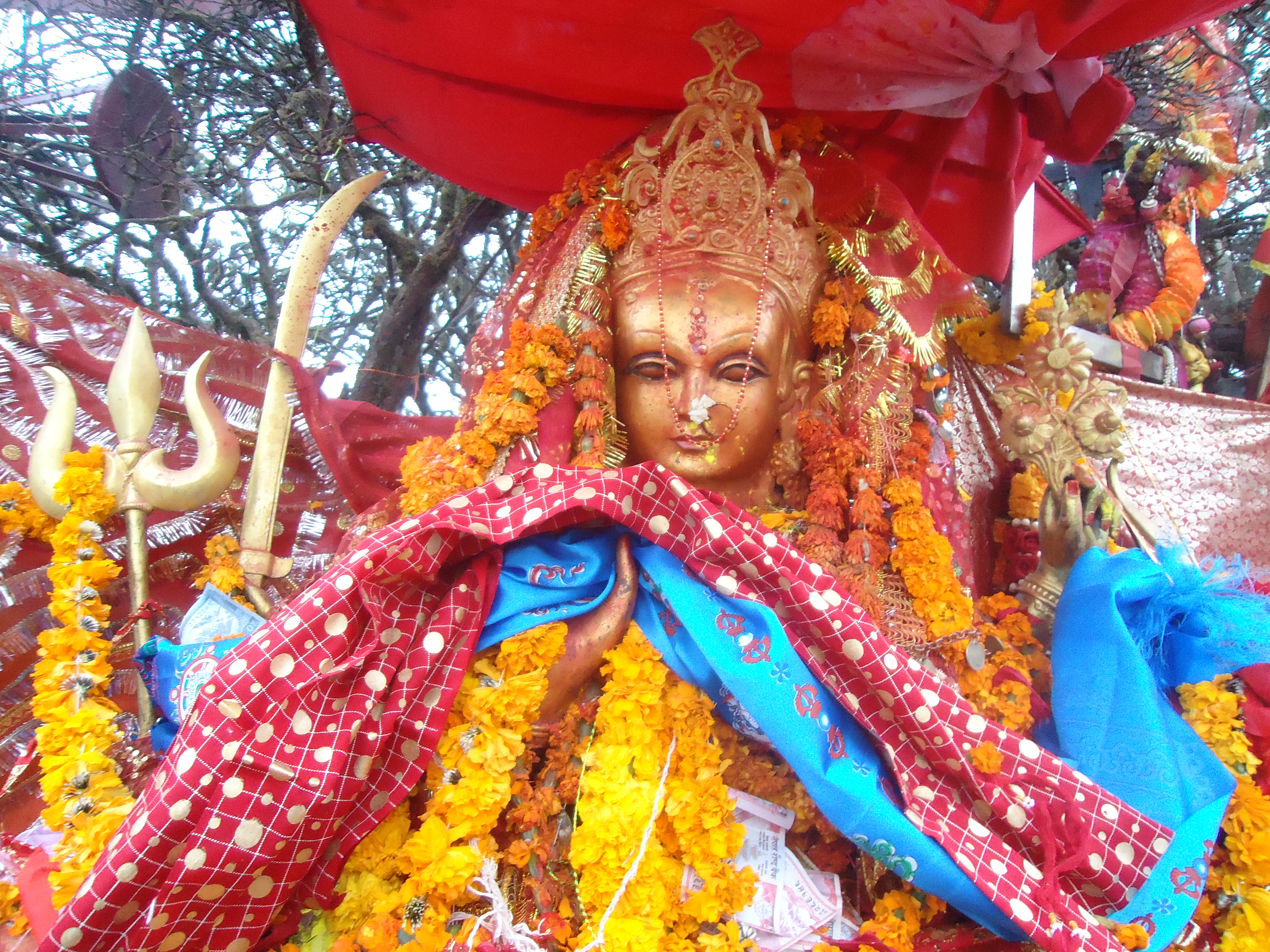 Pathibhara Devi temple in 2014 November.